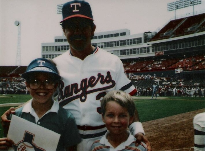 Wayne Tolleson at Texas Rangers/Eckerd Drugs Camera Day at Arlington Stadium, Arlington, Texas Sunday, April 28, 1985.